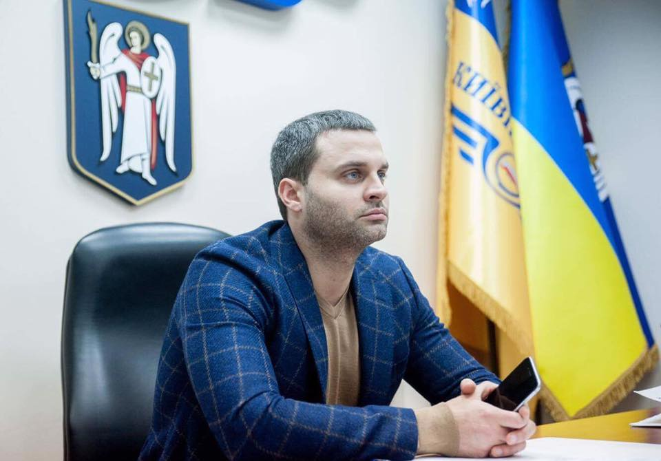 sagaidak ilya